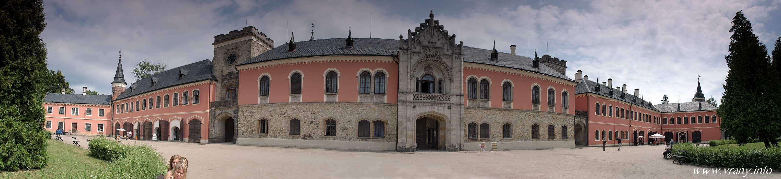 Sychrov castle